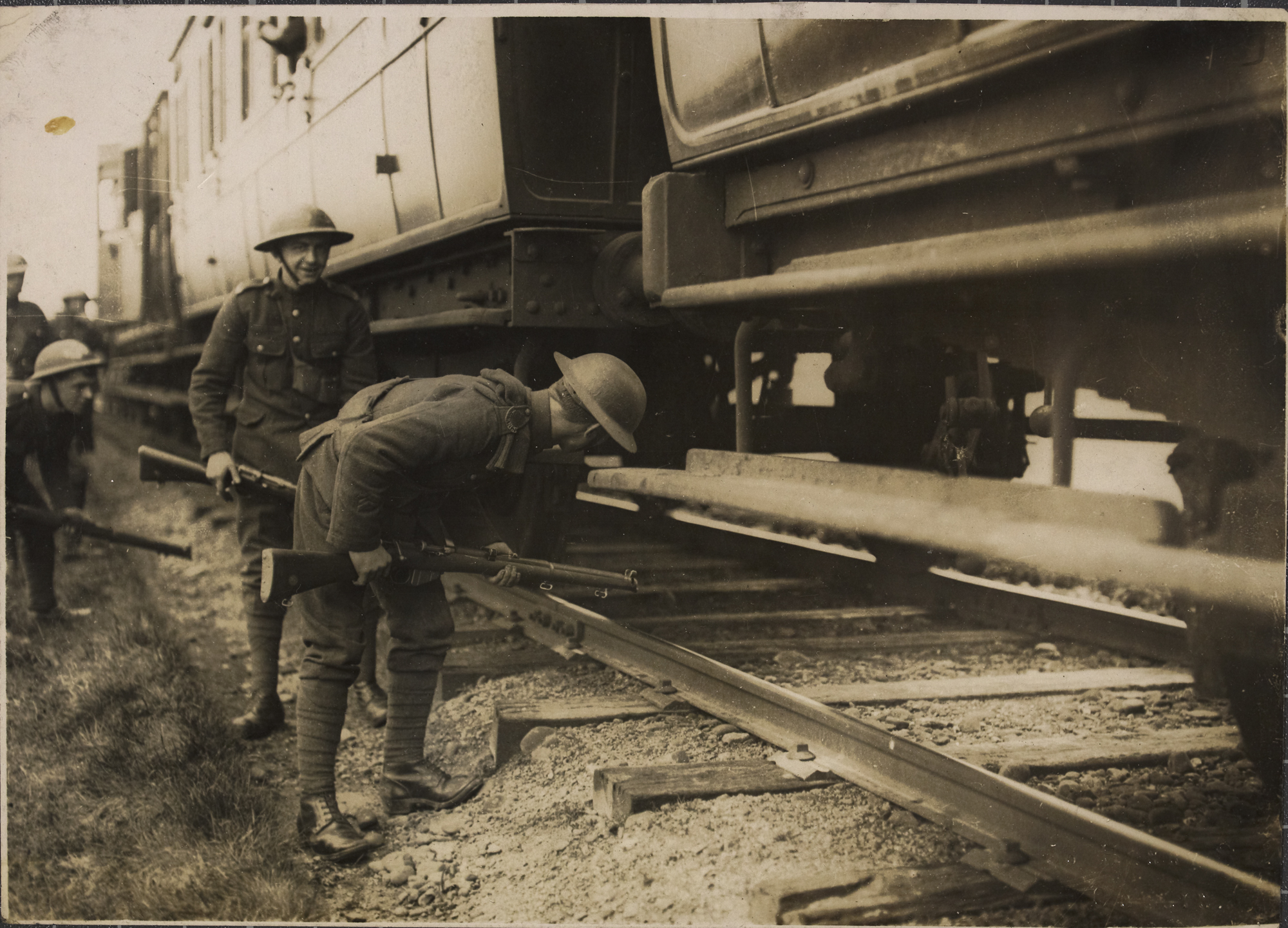 Another fantastic photo from the Hogan Collection. It seems these men might be from the North Lancashire Regiment, you really do need to read the comments and view the links included, to get a view of what was happening in the Kerry at this time. Photographer: W. D. Hogan Collection: Collection Hogan-Wilson Collection Date: 1921 NLI Ref.: HOGW 112 You can also view this image, and many thousands of others, on the NLI’s catalogue at